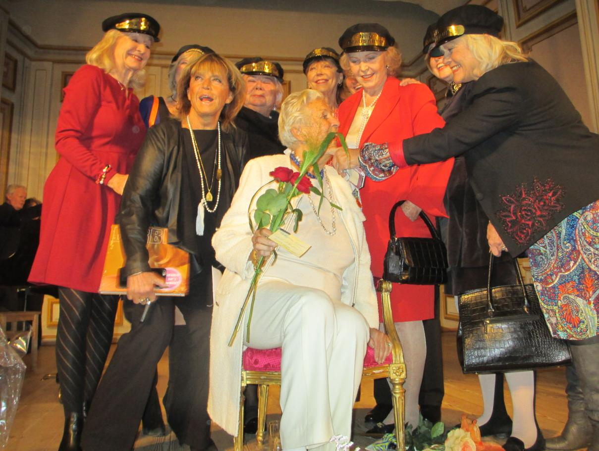 Members of Stadsbrudskåren Alexandra Charles, Barbro "Lill-Babs" Svensson, Ettan Bratt, Kjerstin Dellert, Lill Lindfors, Princess Marianne Bernadotte & Christina SchollinPlace: Confidencen, Ulriksdal, Solna, Sweden